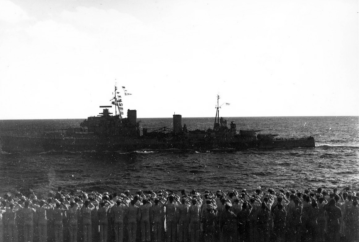 The New Zealand Crown Colony class cruiser HMNZS Gambia (48) with her crew manning the rails as the U.S. aircraft carrier USS Saratoga was leaving the Indian Ocean on 18 May 1944. The crew of the Saratoga is rendering honours in the foreground.